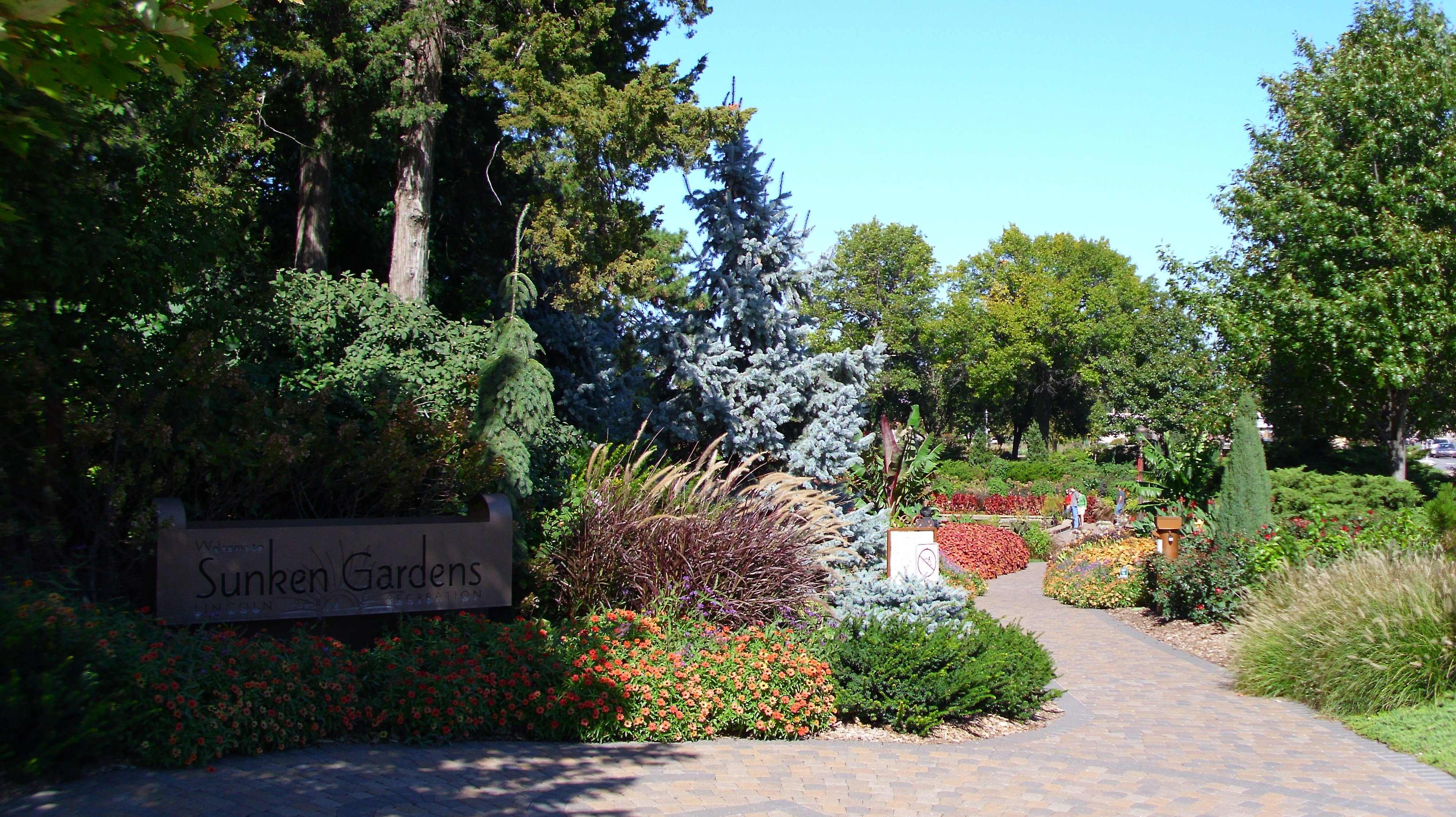 This is the southeast entrance of the Sunken Gardens in Lincoln, NE.